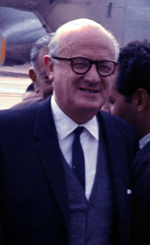 Edgardo Seoane Corrales, vice president of Peru, at an airport (Cuzco or Lima, unsure which) in 1968.